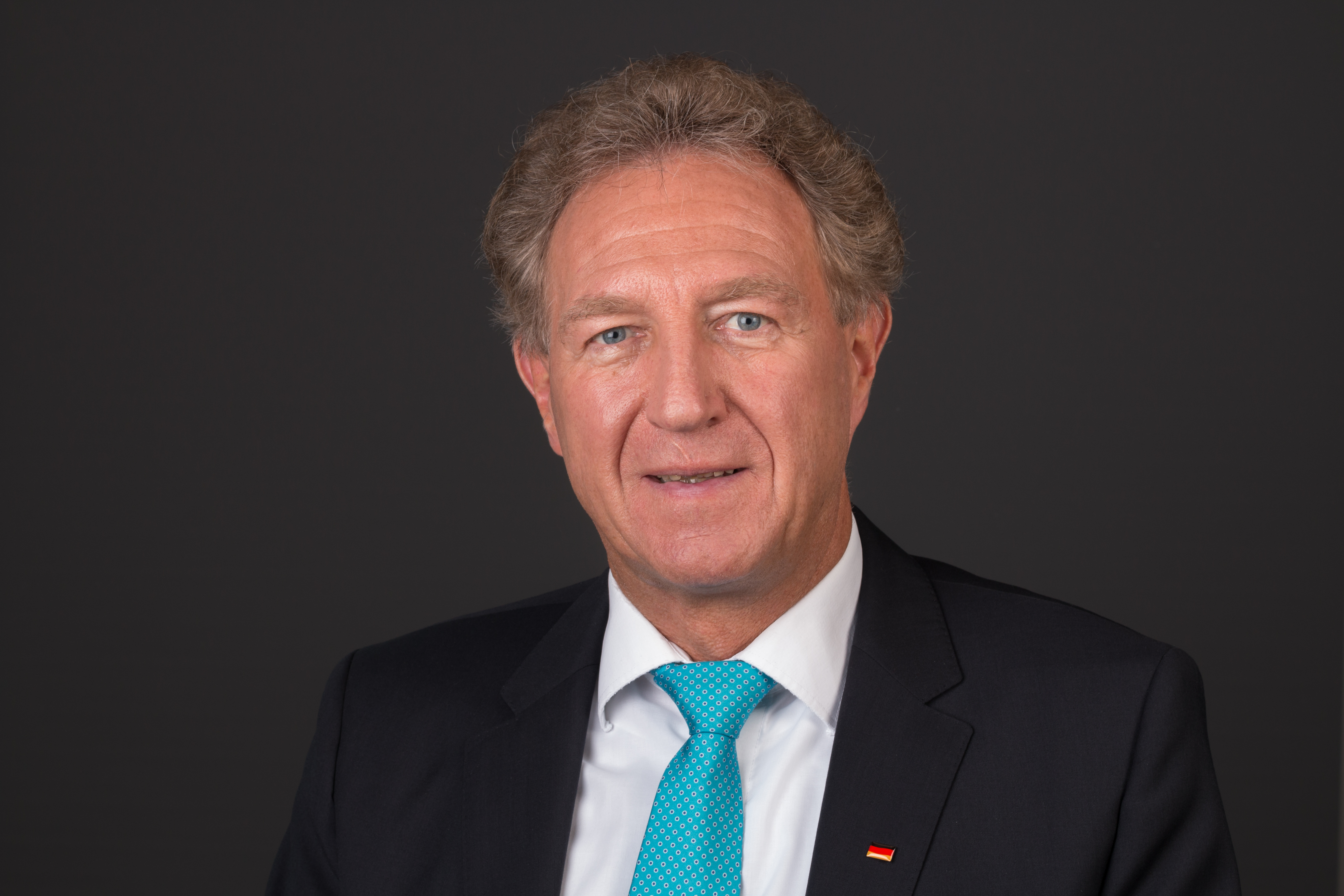 Norbert Barthle, MdB, Christian Democratic Union